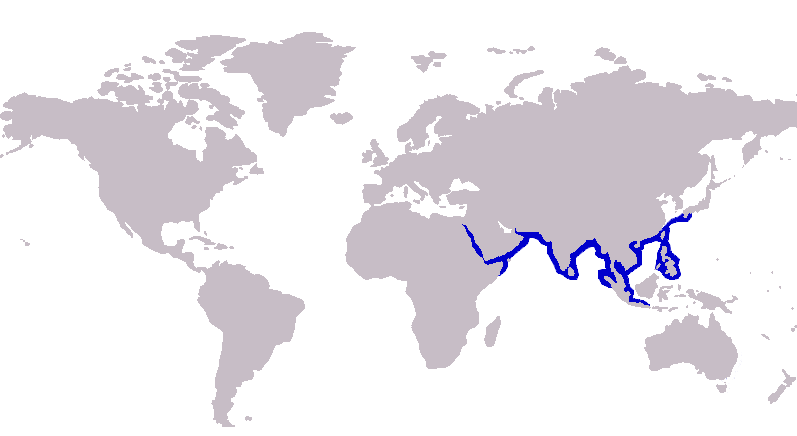 Approximate distribution of the blackfin scad, Alepes melanoptera based on Carpenter et al 2002. Map base from